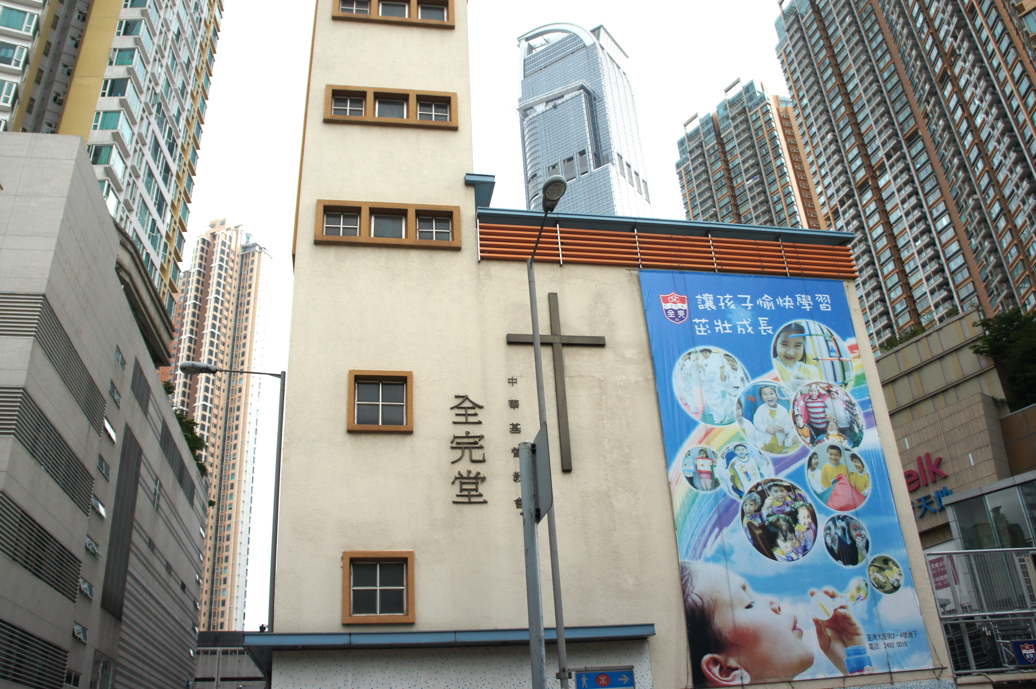 The Church of Christ in China, Chuen Yuen Church, Tsuen Wan, New Territories, Hong Kong.